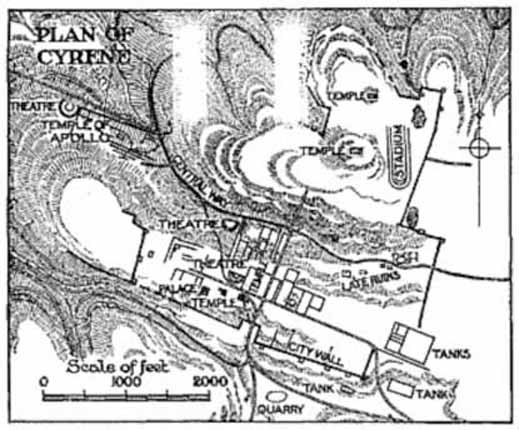 Plan of archeological site of Cyrene (Cyrenaica) in 1860